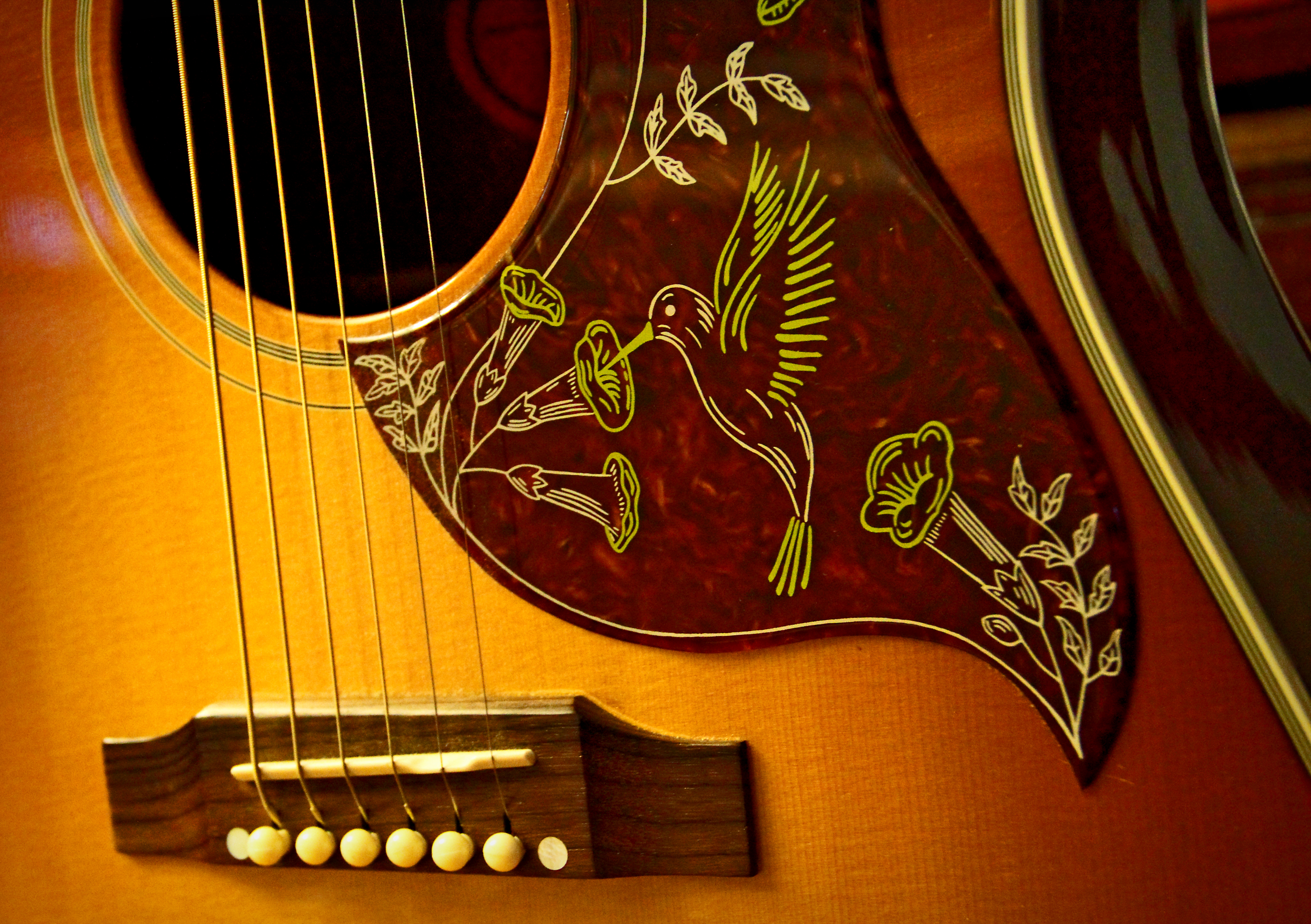 Gibson Hummingbird